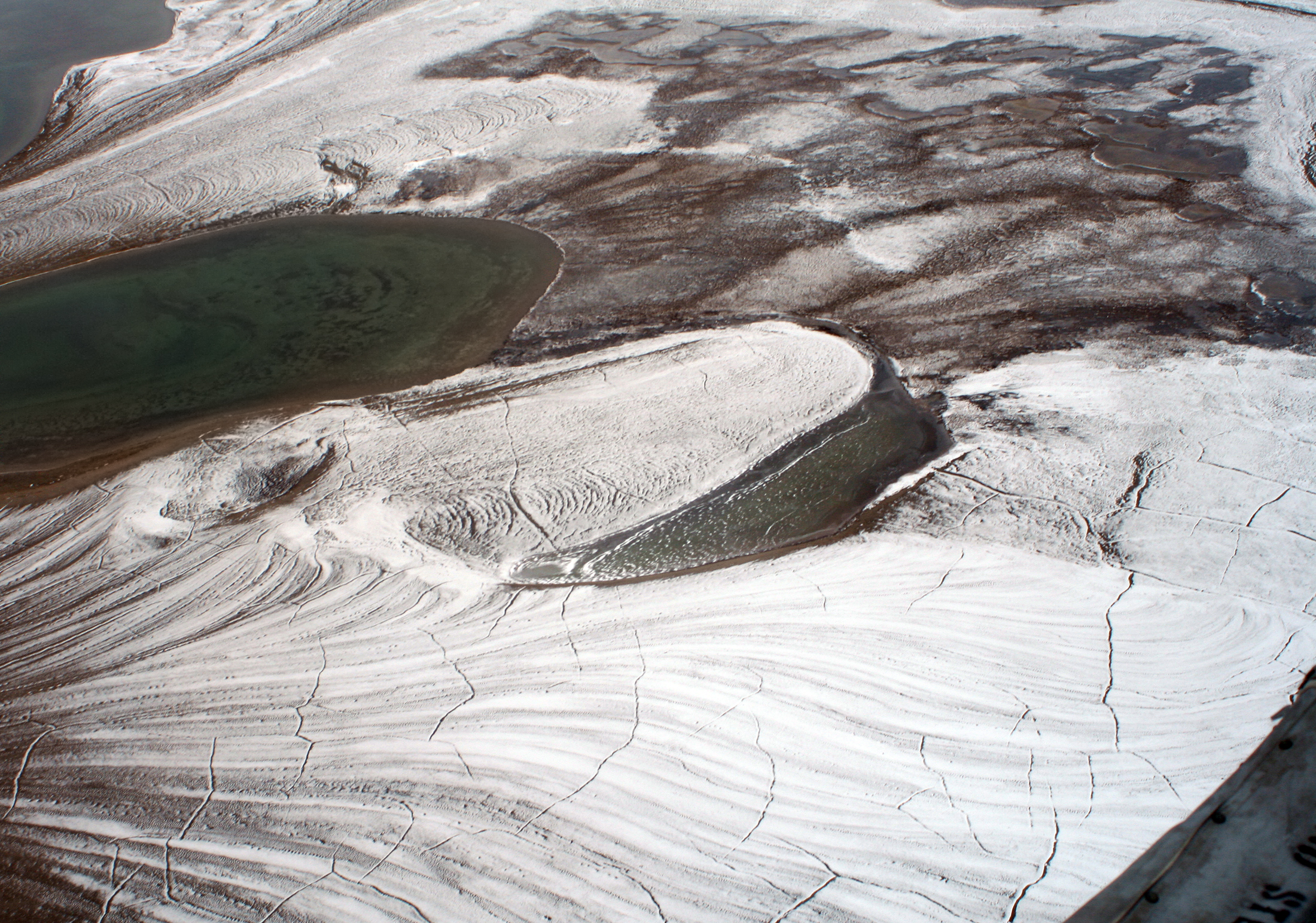 The image was taken in High Arctic from a helicopter. It shows the crack pattern in permafrost.